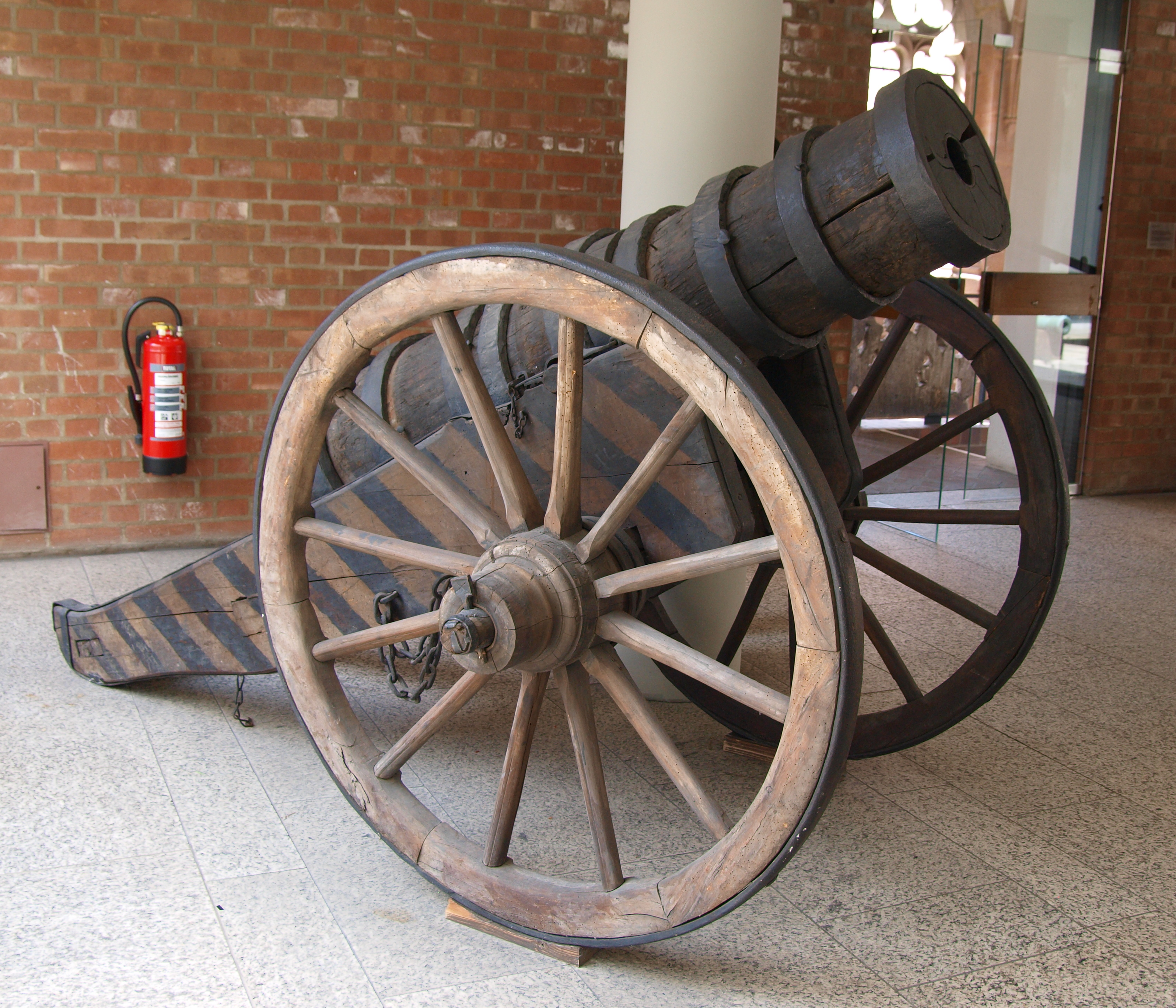 Wooden Cannon calibre 90 mm, wooden barrel with thin iron insert and and iron rings supporting the barrel. Germanisches Nationalmuseum Nürnberg Inventory Number W 622. Barrel made of wood and iron. Lafette made of wood and iron. Description at the objects data base of Germanisches Nationalmuseum (German).